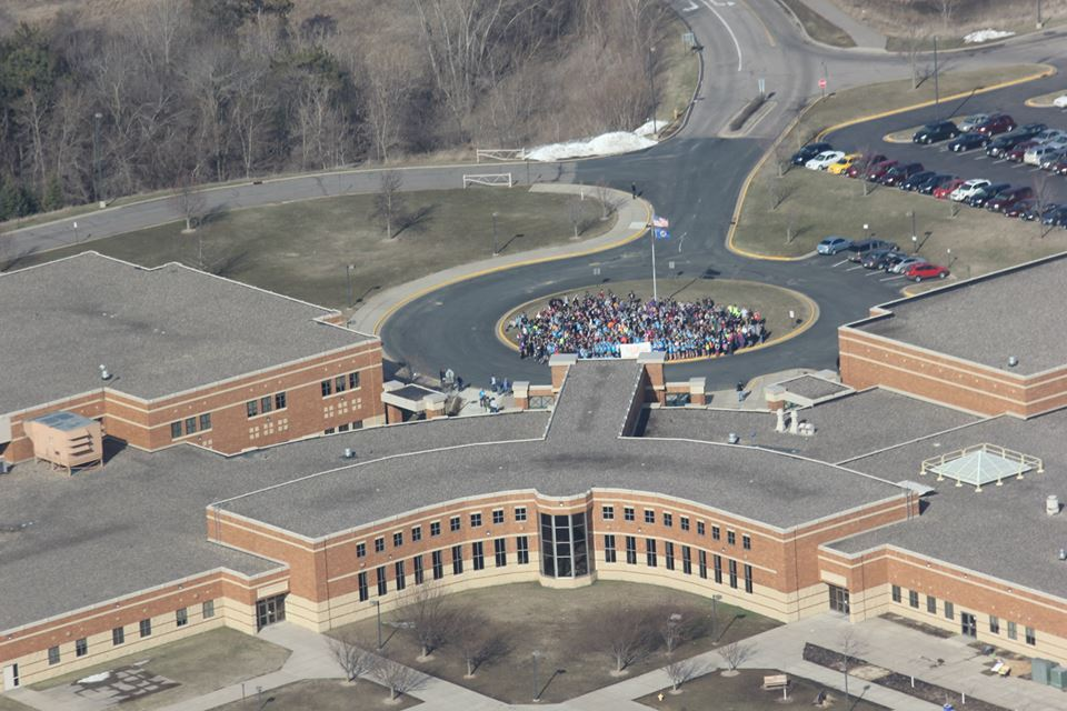 RW FFA Earth Day Arial Shot, 2013